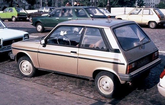 Citroen LN in Luxembourg when model recently launched